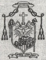 Coat of arms of the Argentine Bishop Jorge Kemerer, Bishop of ̪Posadas.